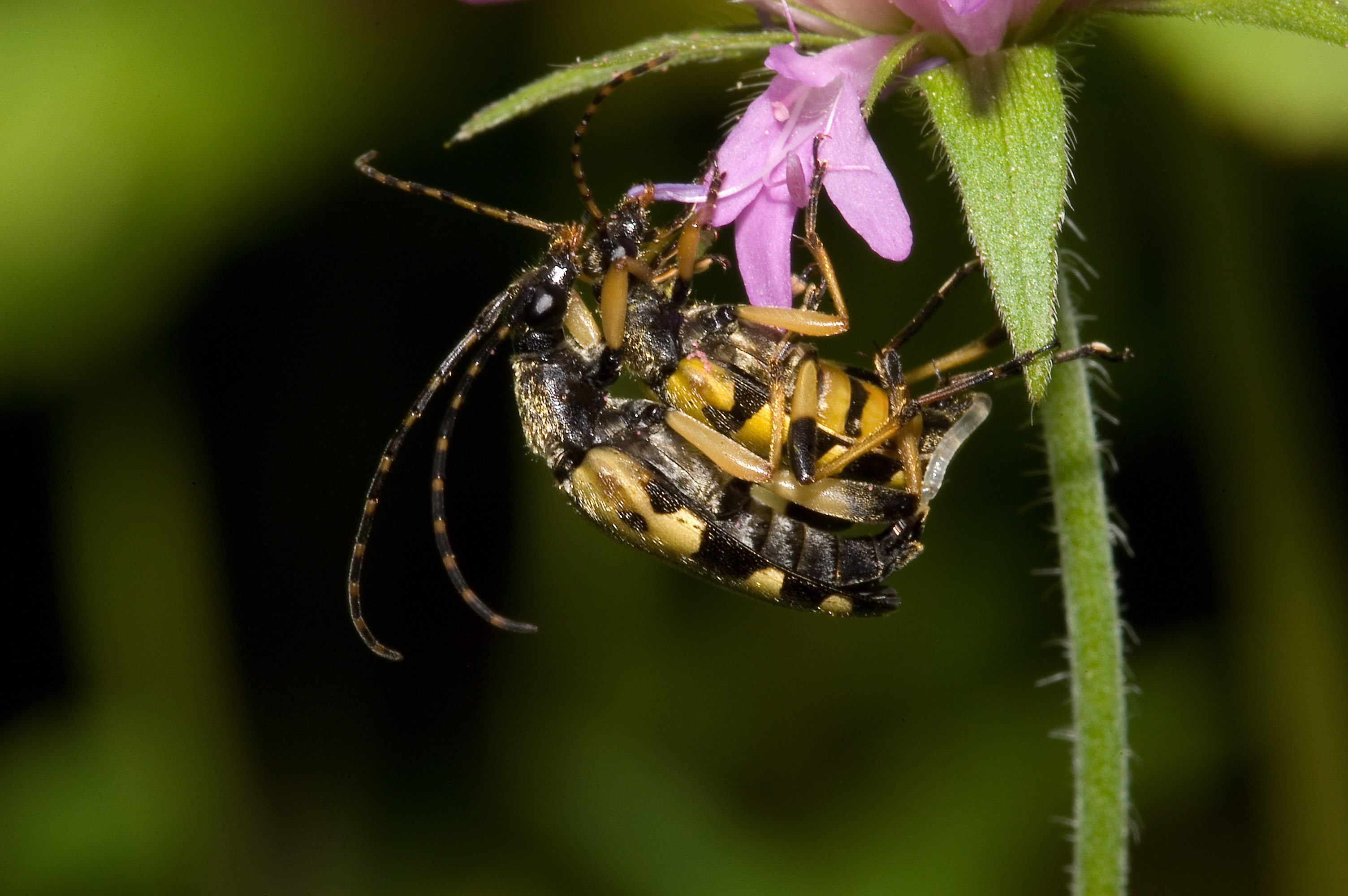 mating insects